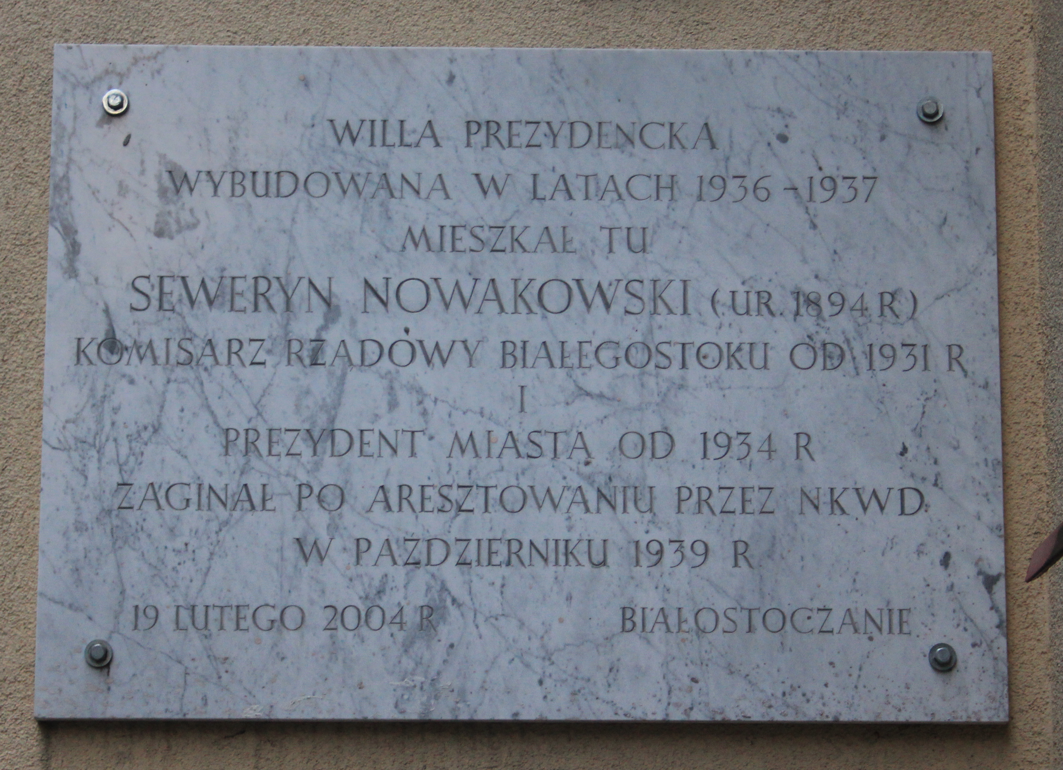 Plaque of Seweryn Nowakowski on presidential villa at Akademicka 26 street in Białystok.